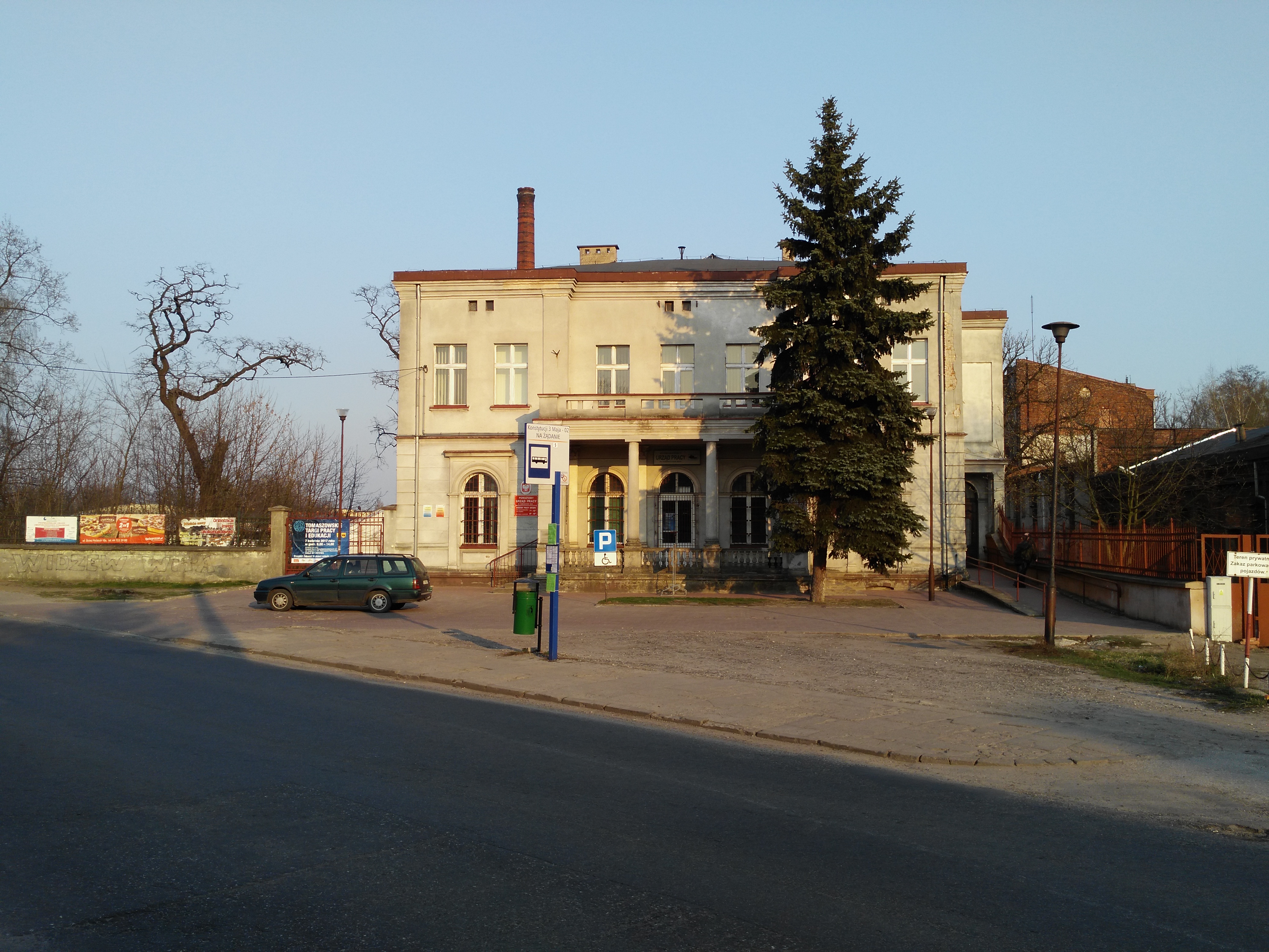 Willa dyrekcji fabryki Landsberga z początku XX wieku. Obecnie Powiatowy Urząd Pracy, ulica Konstytucji 3 Maja 46, Tomaszów Mazowiecki